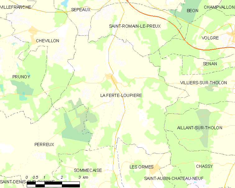 Map of French municipality La Ferté-Loupière